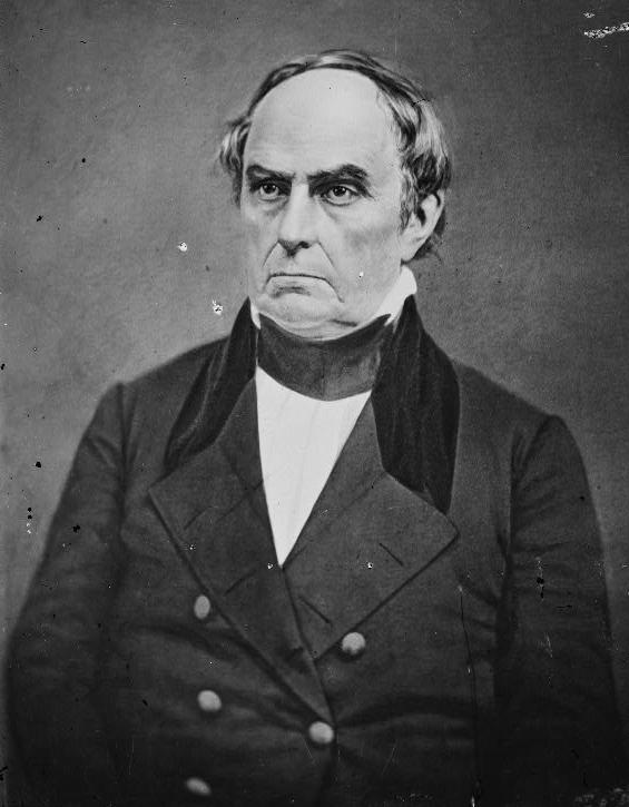 Created/published between 1855 and 1865.